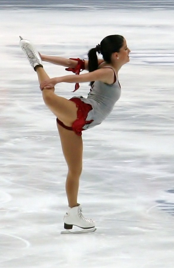 Sonia Lafuente at the 2011 World Figure Skating Championships